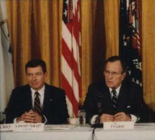 PRESIDENT BUSH MEETS WITH GOVERNORS IN THE EAST ROOM. THE PRESIDENT ADDRESSES THE MEETING. HE IS FLANKED AT THE HEAD TABLE BY ROGER PORTER, GOV. JOHN ASHCROFT, GOV. BOOTH GARDENER, CHAIRMAN OF THE NATIONAL GOVERNORS ASSOCIATION AND GOV. SUNUNU. THE PRESIDENT GREETS MANY OF THE GOVERNORS INDIVIDUALLY. ALSO SHOWS THE PRESIDENT ON THE SOUTH GROUNDS AFTER THE EVENT WITH MRS. BUSH, DAVE DEMAREST AND DEB ANDERSON. ALSO SHOWS MRS. BUSH WALKING PAST THE DEER STATUE ON THE SOUTH GROUNDS, SHE IS USING A CANE.